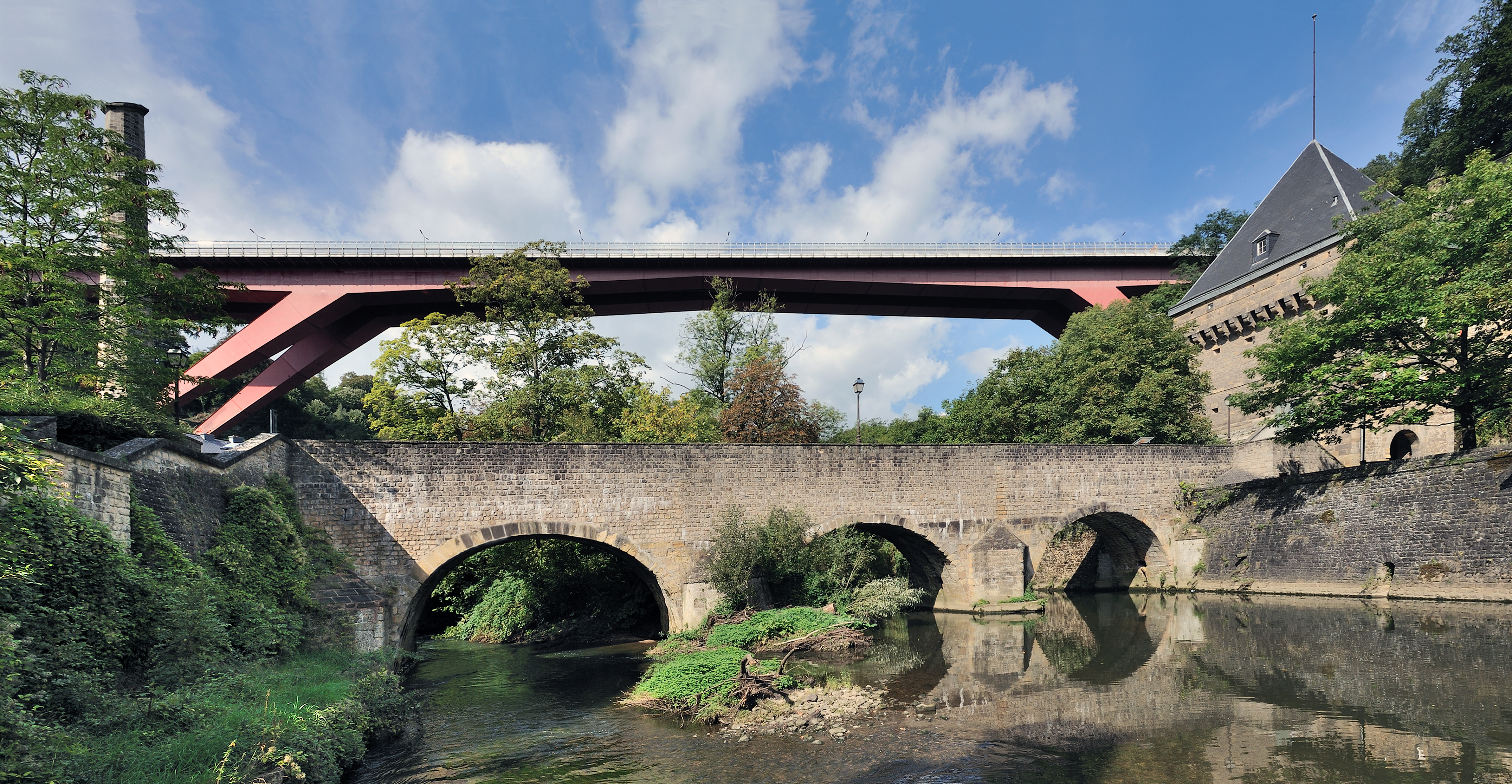 Luxembourg City, Pfaffenthal. (1) the bridge called Béinchen, erected in 1684/1685 by Vauban, as part of the defensive walls of the ancient Luxembourg fortress. (2) Grand Duchess Charlotte Bridge the so-called Red Bridge, inaugurated in 1965. In the foreground: the Alzette river. The place shown is part of a UNESCO World Heritage Site.